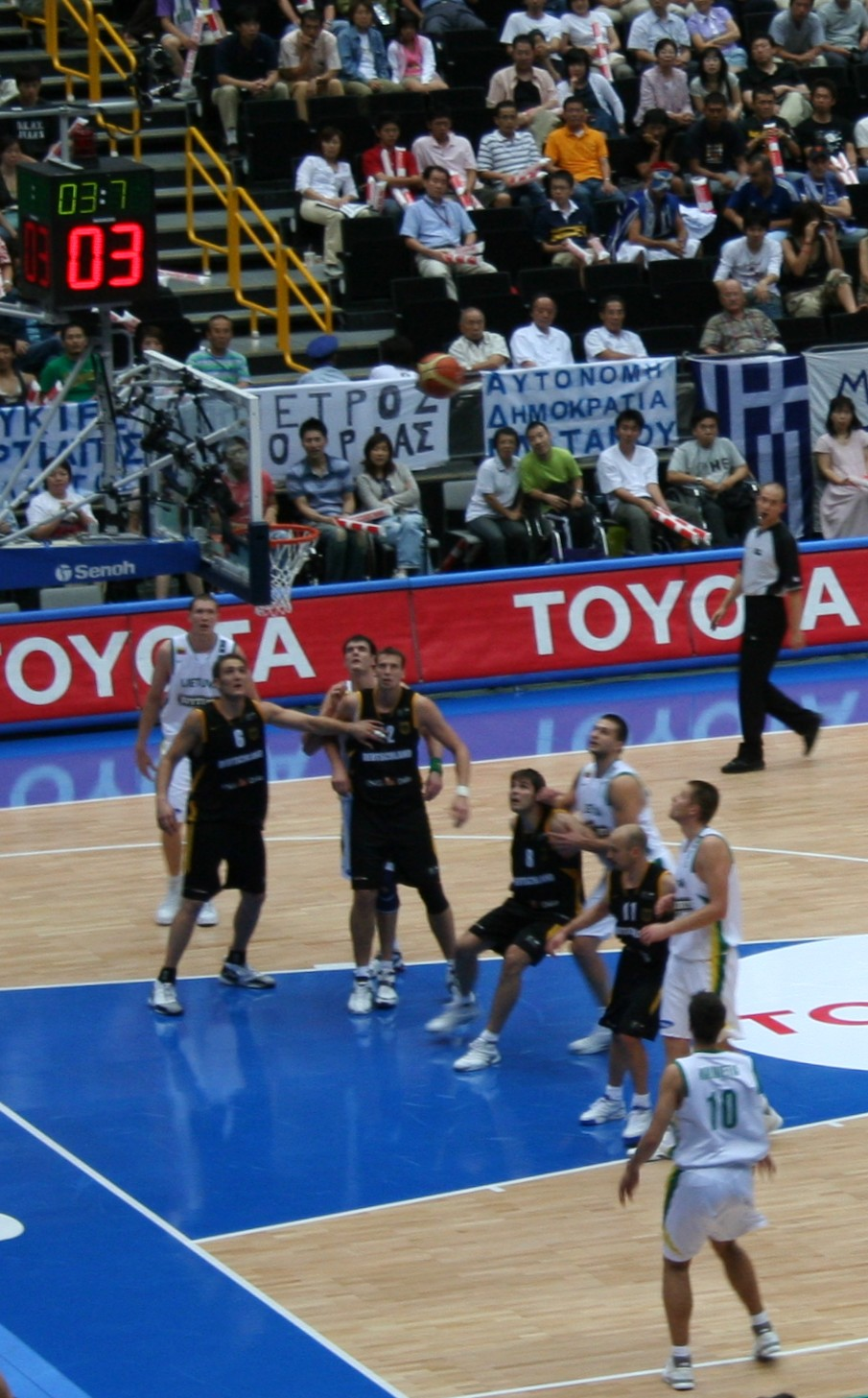 Basketball World Cup 2006 in Japan. Game for 7th place between Lithuania (in white) and Germany